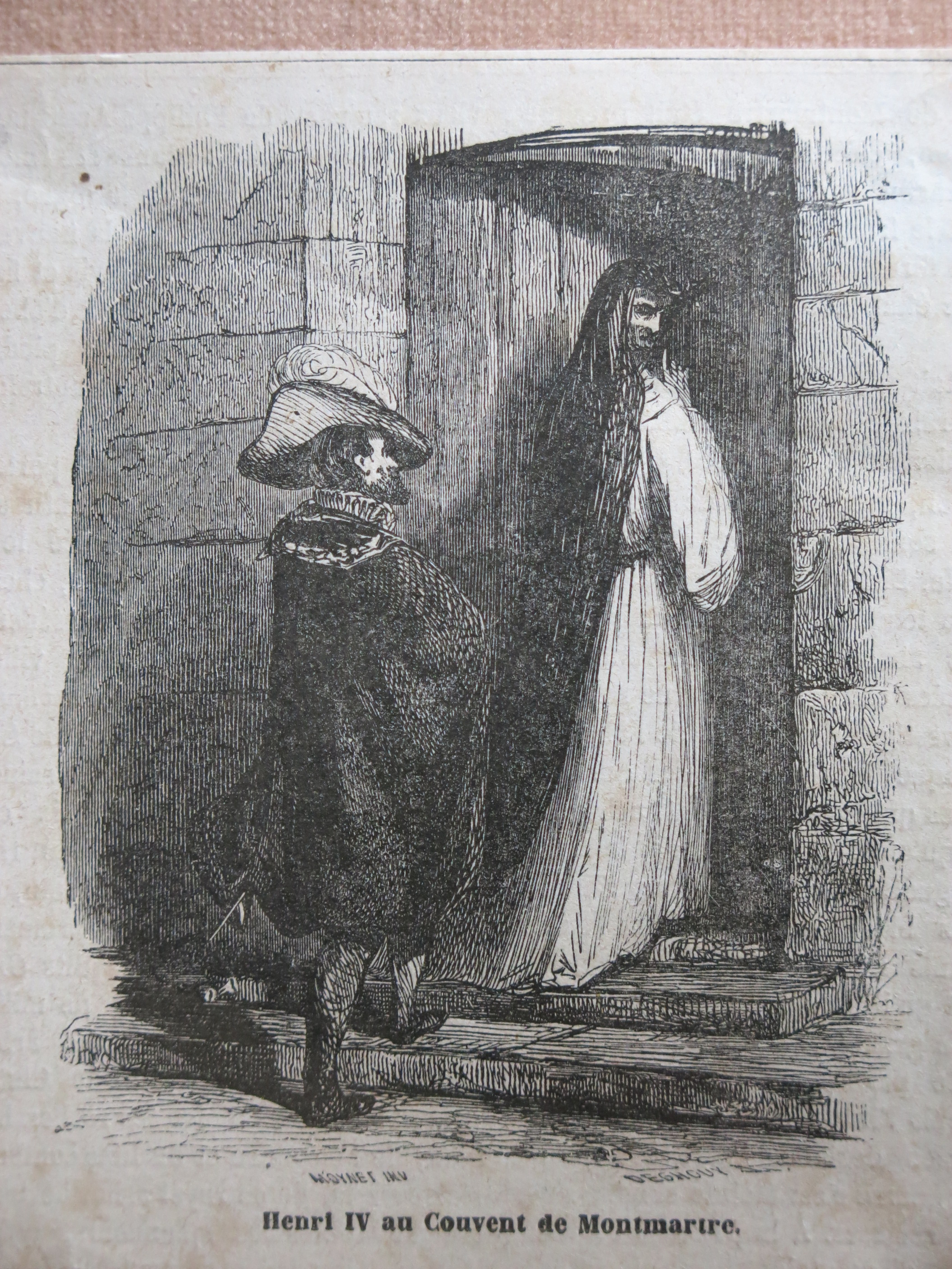 The king of France Henri IV goes to meet Marie Catherine de Beauvilliers, abbes of Montmartre, during the siege of Paris in 1590. Engraving preserved in Montmartre museum.